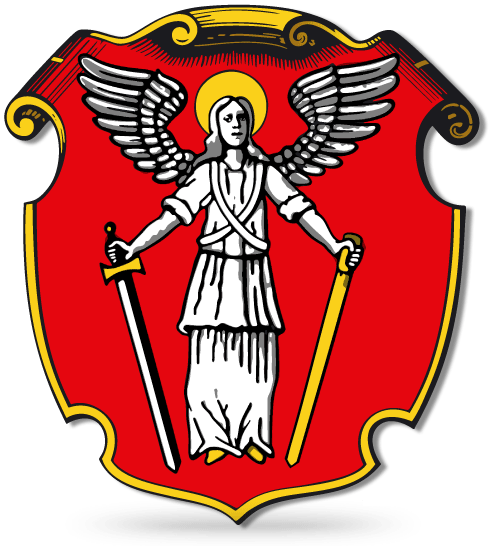 Coat of arms of the Kiev province as part of the Commonwealth. The first half of the XVII century.